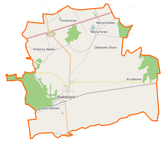 Map of Gmina Białośliwie, Poland This map of Białośliwie (gmina) was created from OpenStreetMap project data, collected by the community. This map may be incomplete, and may contain errors. Don't rely solely on it for navigation.